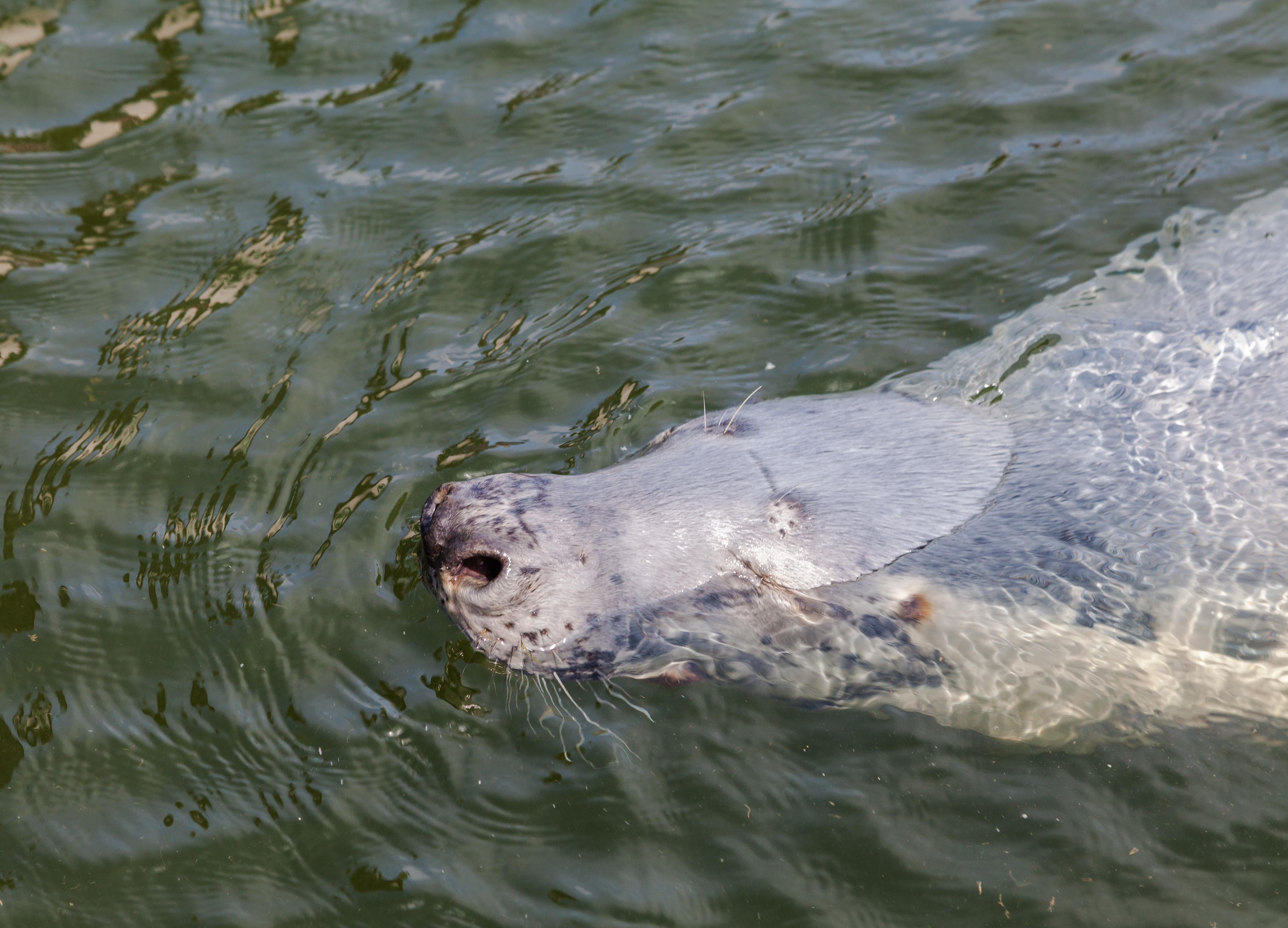 Focario de focas grises (Halichoerus grypus), Hel, Polonia